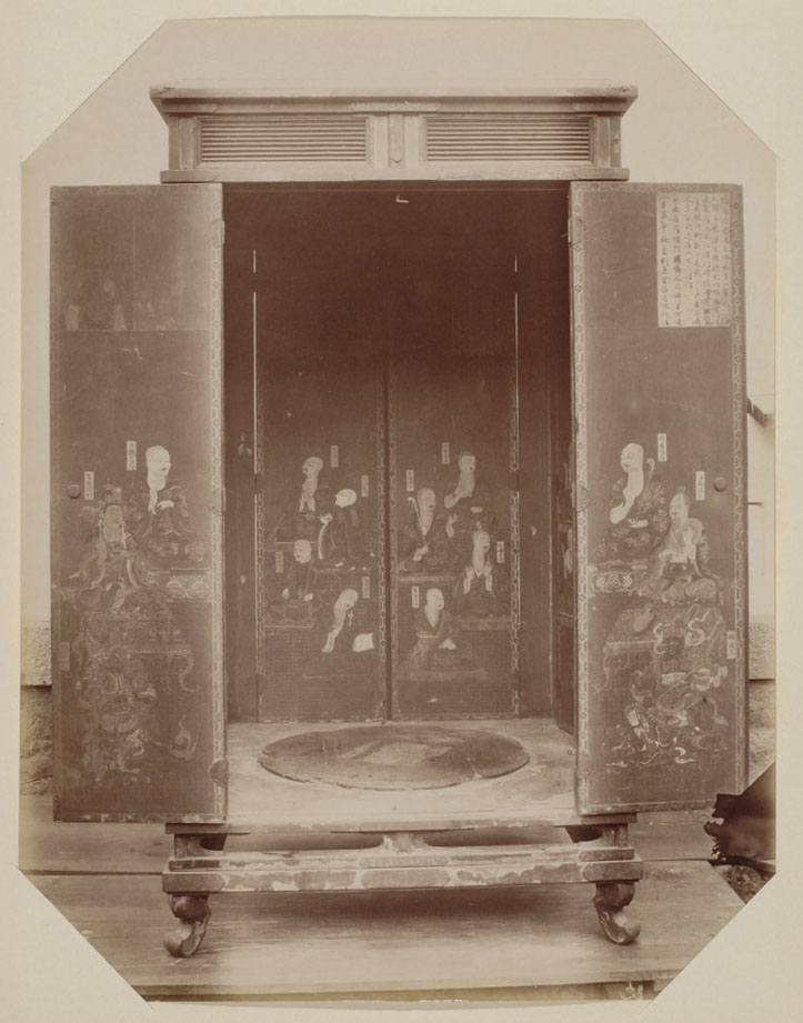 MirokuZushi